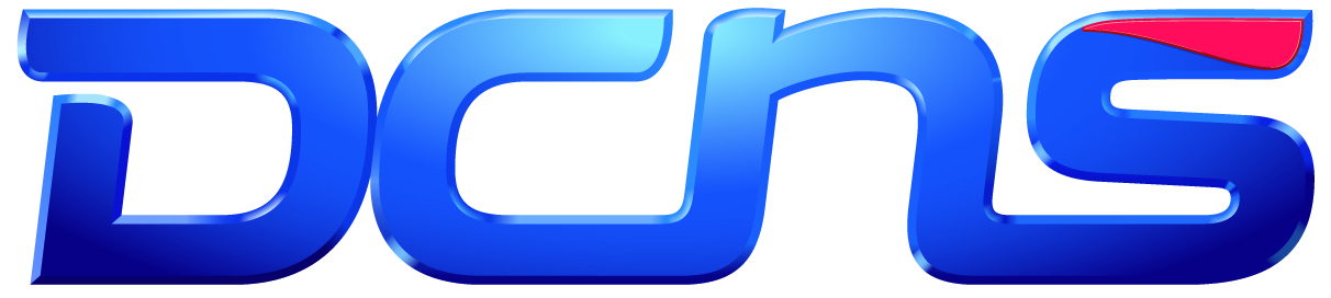 DCNS Logo Quadri